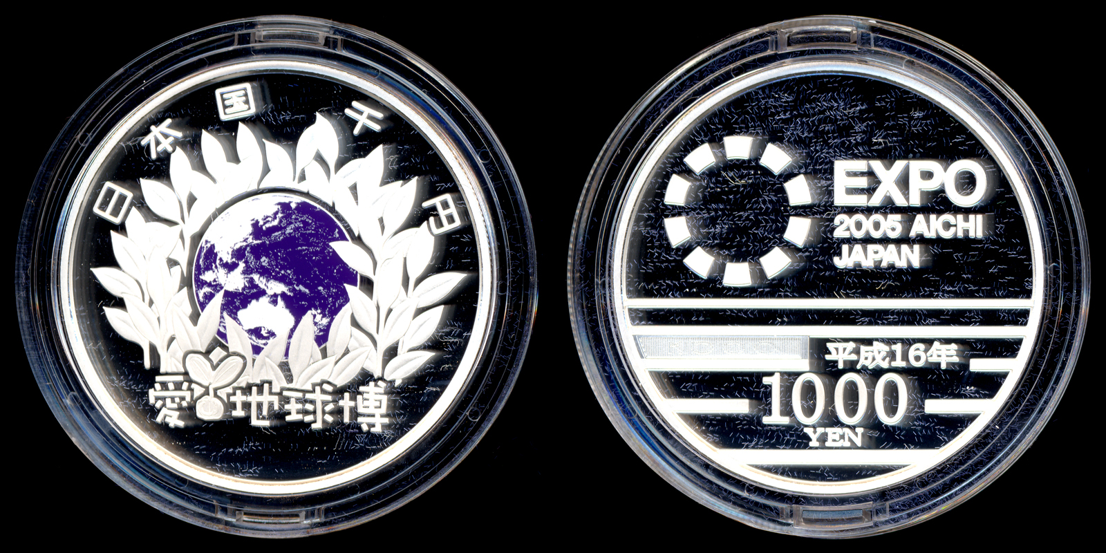 Aichi-Expo2005-1000yen